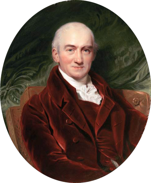 John Howard, seated in a brown upholstered chair, facing right in maroon velvet coat and waistcoat and frilled cravat, green curtain background.